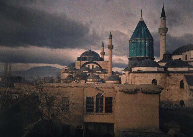 A photo from Mevlana Tomb in Konya, Turkey